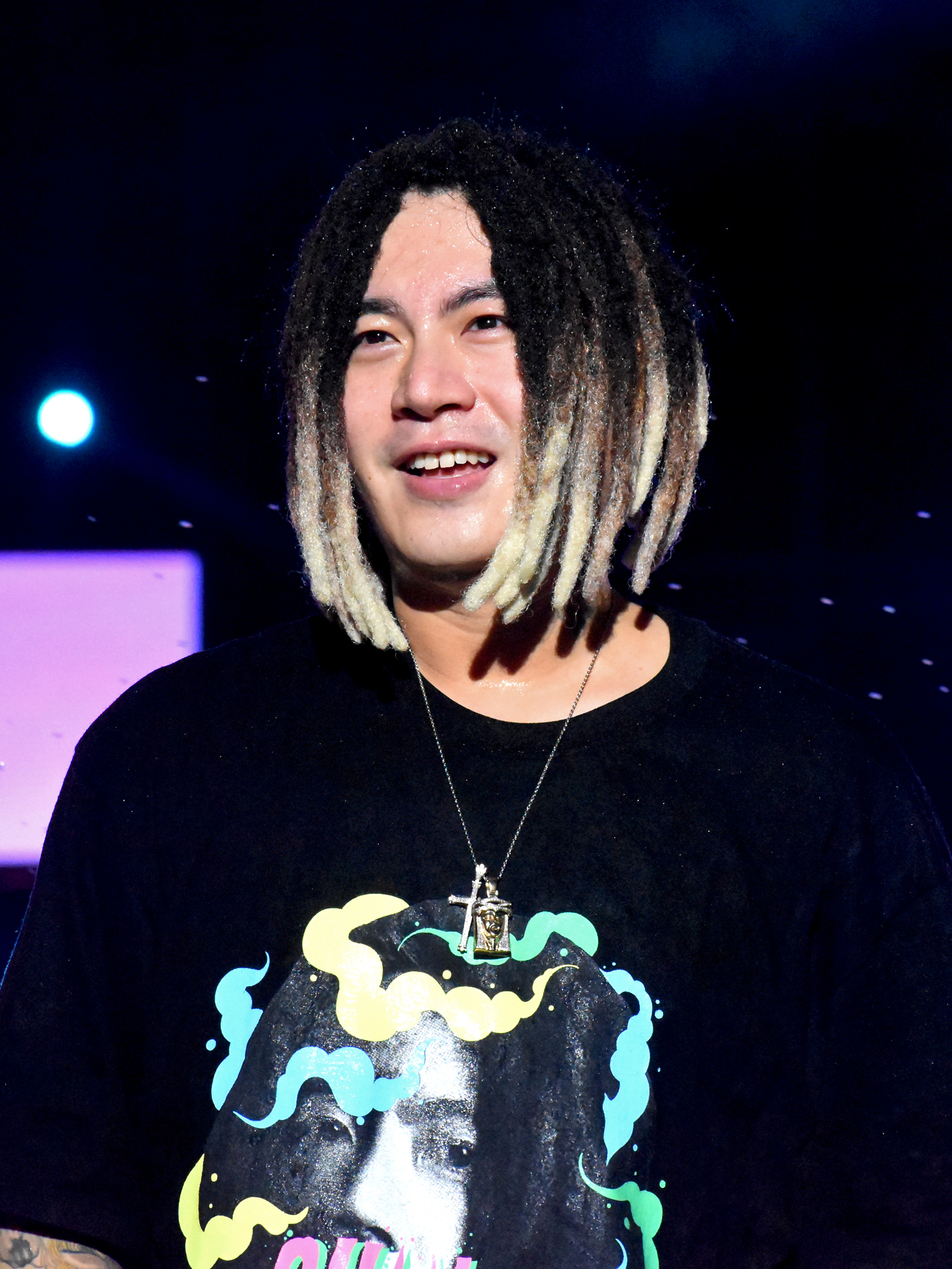 RPR at the 23rd Busan Sea Festival in Haeundae on August 2, 2018.